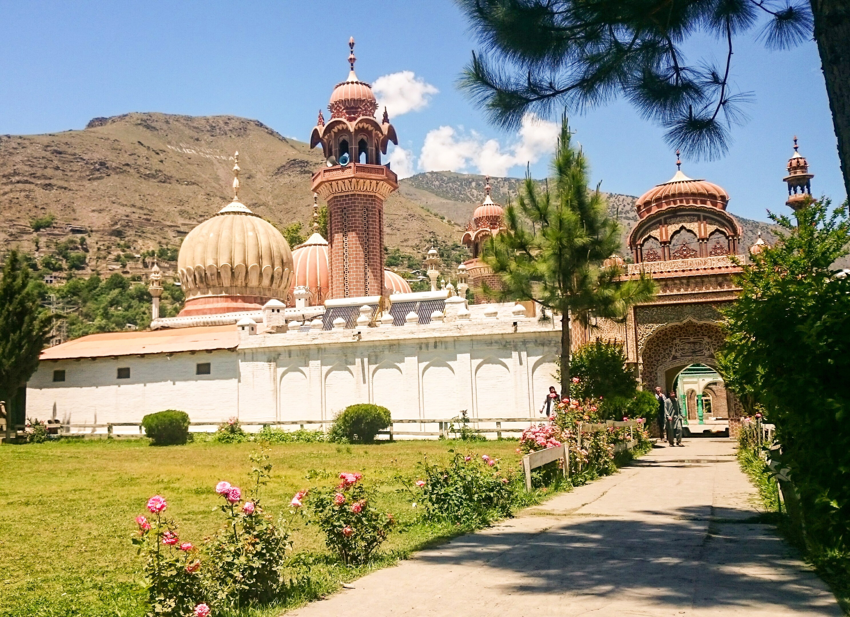 Badshahi Masjid Chitral This is a photo of a monument in Pakistan identified as the KPK-88